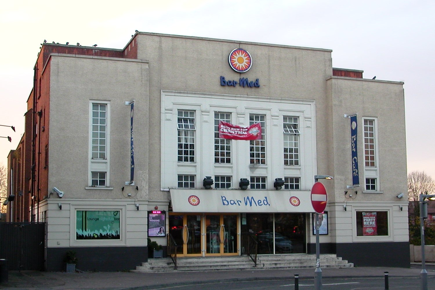 Former Embassy Cinema, High Street, Crawley, West Sussex, England. Built in 1938, divided into a 3-screen complex in 1979–80, closed 2000 and converted into a bar, locally listed as of November 2010, but demolished in 2012.